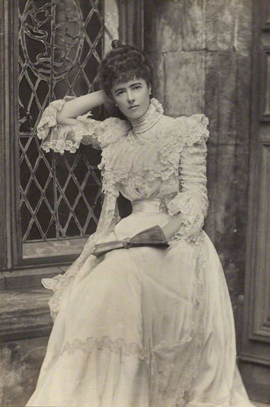 Georgina Ward, Countess of Dudley, by Alice Hughes, platinum print, circa 1902